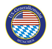 U.S. Consulate General Munich logo